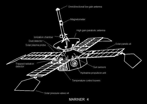 A diagrams of Mariner 3 & 4, 1964.